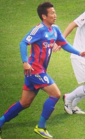 Kazuma Watanabe from FC Tokyo